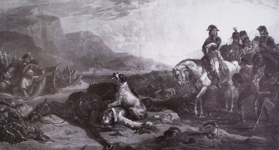 general Bonaparte at the battle of Bassano (1796)